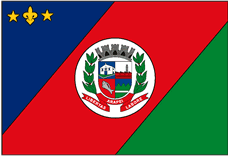 Flag of São Paulo's Arapeí city, Brazil.